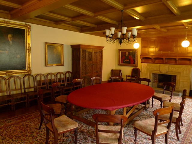 College Hall, within the 16th century St Mary's College building of St Andrews University